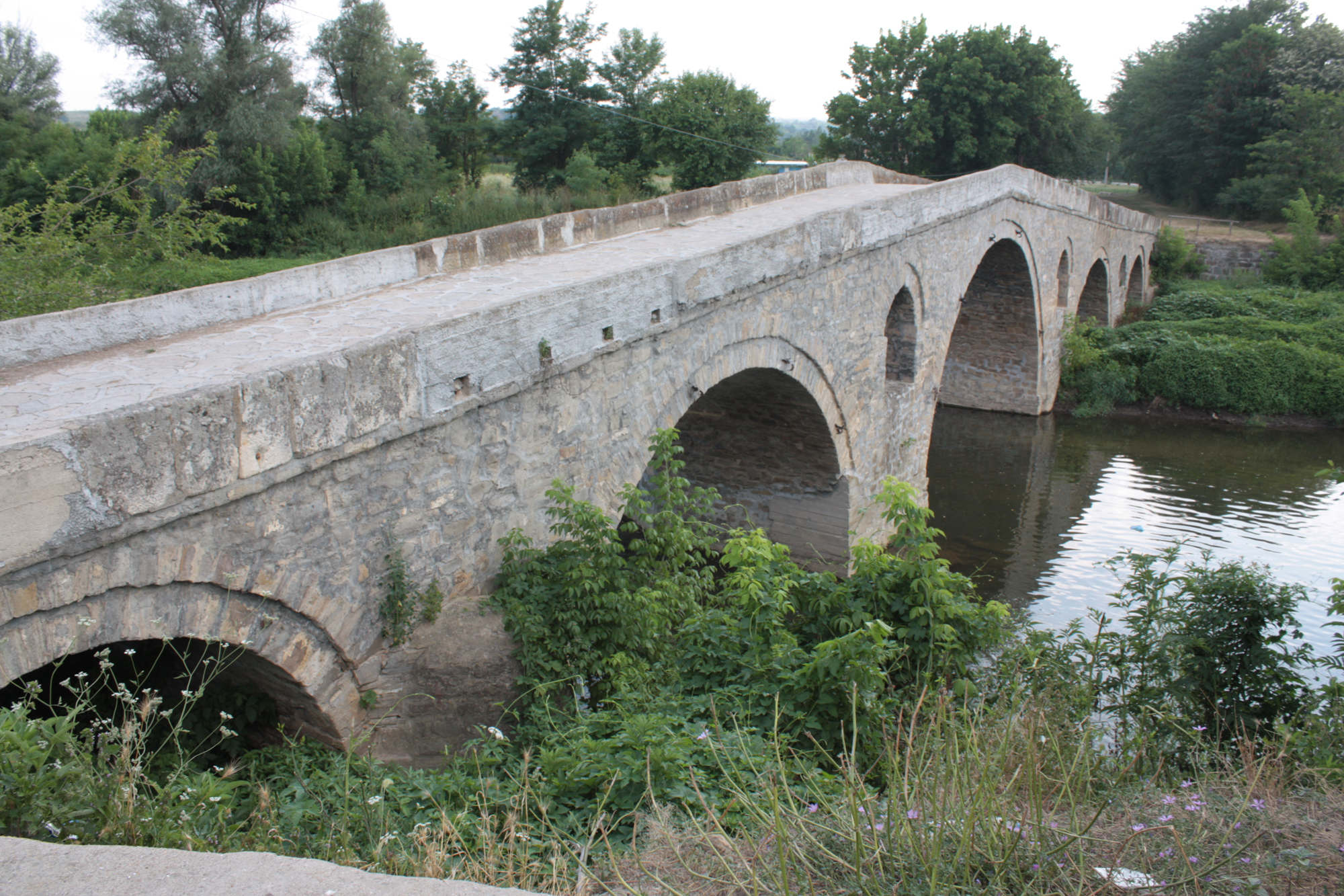 The 300 years Old bridge in Debelets, Bulgaria